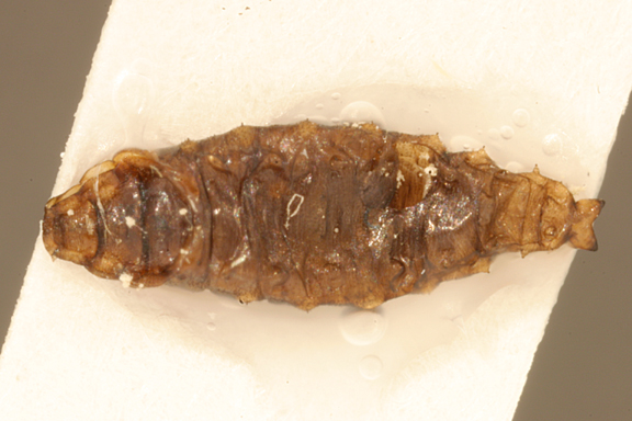 Helaeomyia petrolei larva from the Coal Oil Point Reserve near Santa Barbara, California.